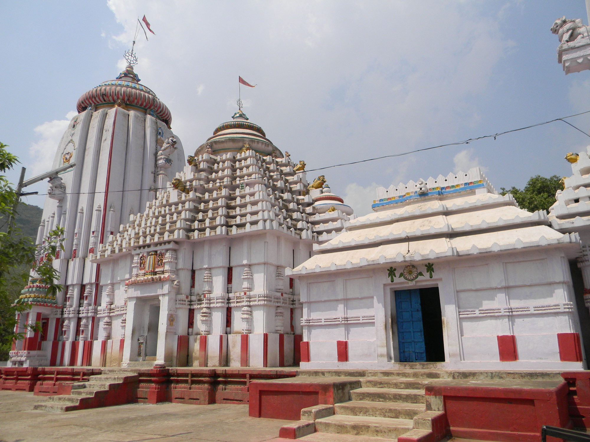 ଓଡ଼ିଆ: Ranapur Jagannath Temple This media file is uploaded with Odia loves Wikipedia